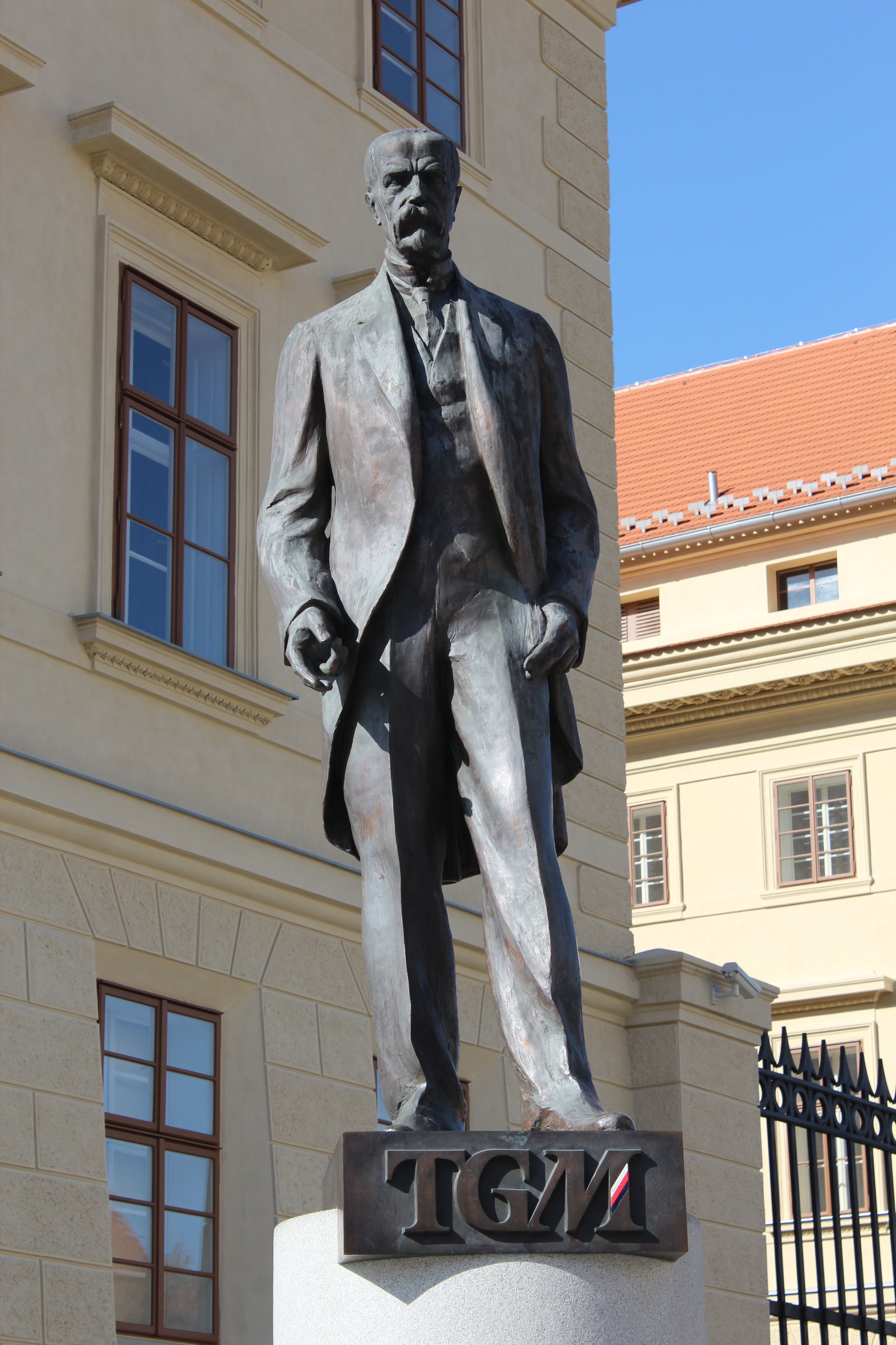 A statue of Tomáš Garrigue Masaryk (1850-1967) in Prague, Czech Republic. Taken on 28 April 2012.